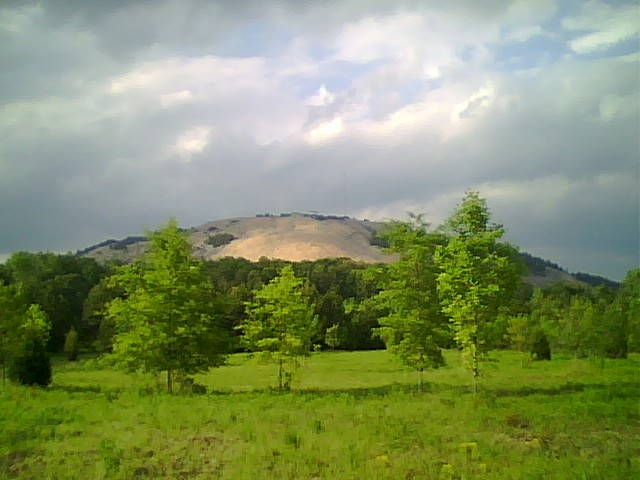 To show the back of Stone Mountain in Georgia as taken from the Songbird Habitat Trail, used as venue for archery and track cycling at the 1996 Summer Olympics in Atlanta.